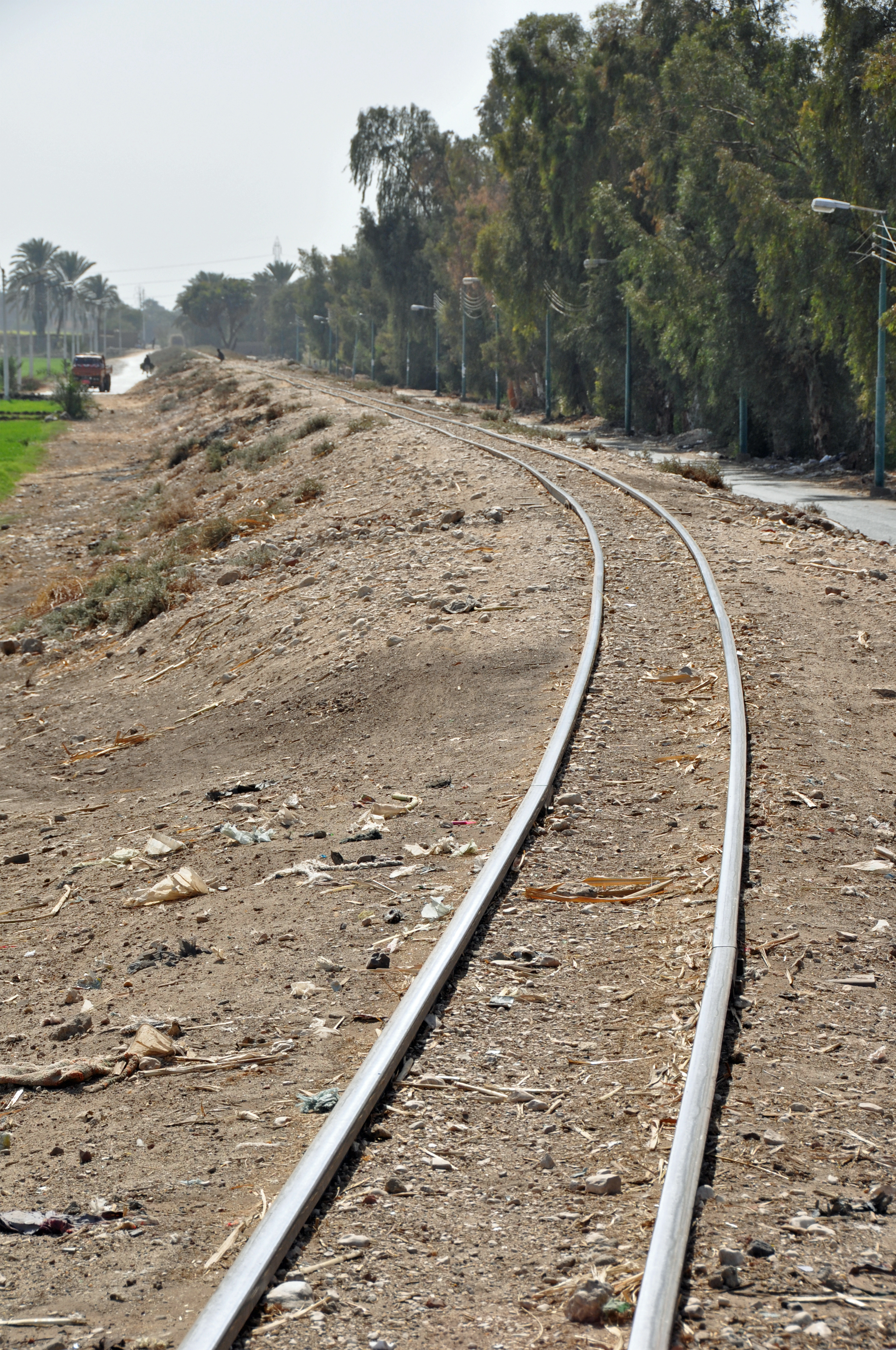 Narrow gauge railway at Qurna (Egypt), used for transporting sugar cane